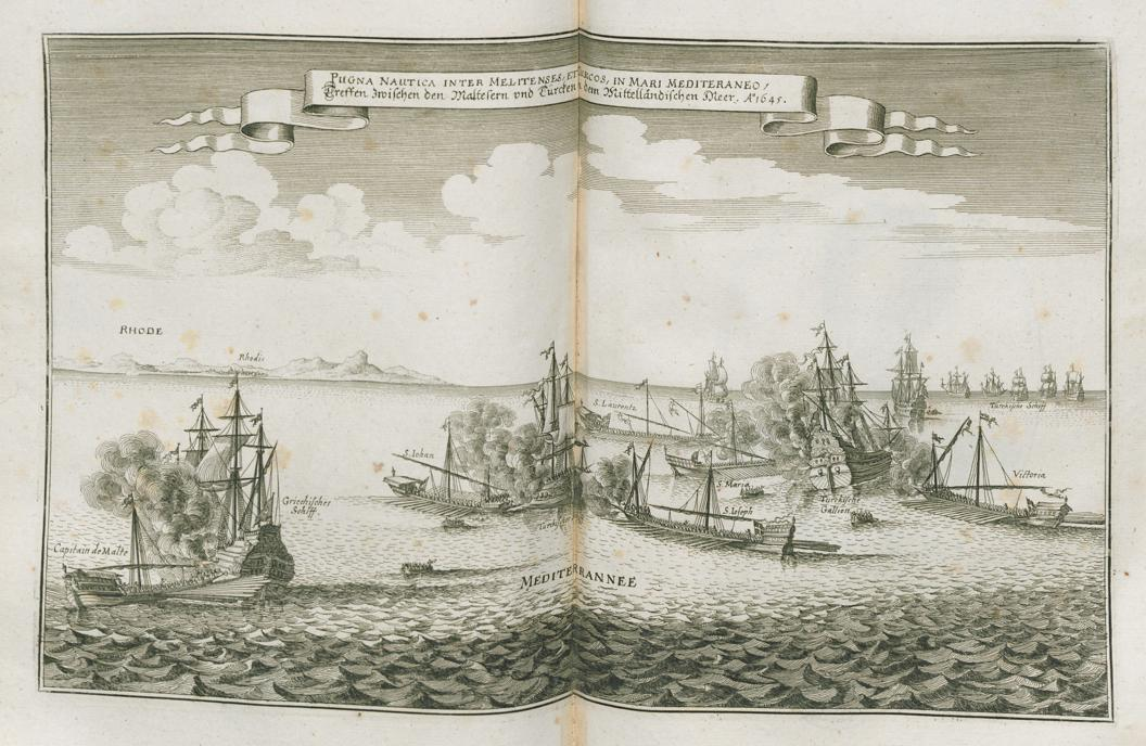 A depiction of a sea battle between a convoy of Turkish ships sailing from Constantinople to Alexandria and carrying a number of pilgrims bound for Mecca, which were attacked by the Knights Hospitaller of Malta during the Action of 28 September 1644. (The year "1645" in the image caption appears to be a mistake.) On the left, a galley labelled "Capitaine de Malte" ("Maltese captain") engages a vessel labelled "Griechisches Schiff" ("Greek ship"). In the middle, two ships labelled "S. Iohann" and "S. Ioseph" engage another Turkish sailing vessel labelled "Türckisches Schiff" ("Turkish ship"); and on the right, three galleys labelled "S. Laurentz", "S. Maria" and "Victoria" surround a ship labelled "Türckische Gallion" ("Turkish galleon"). In the distance on the right are more vessels labelled "Türckische Schiff" ("Turkish ship[s]"), while on the left the land is marked "Rhode" in German and "Rhodis" in Latin ("Rhodes"). The sea is labelled "Mediterrannee".